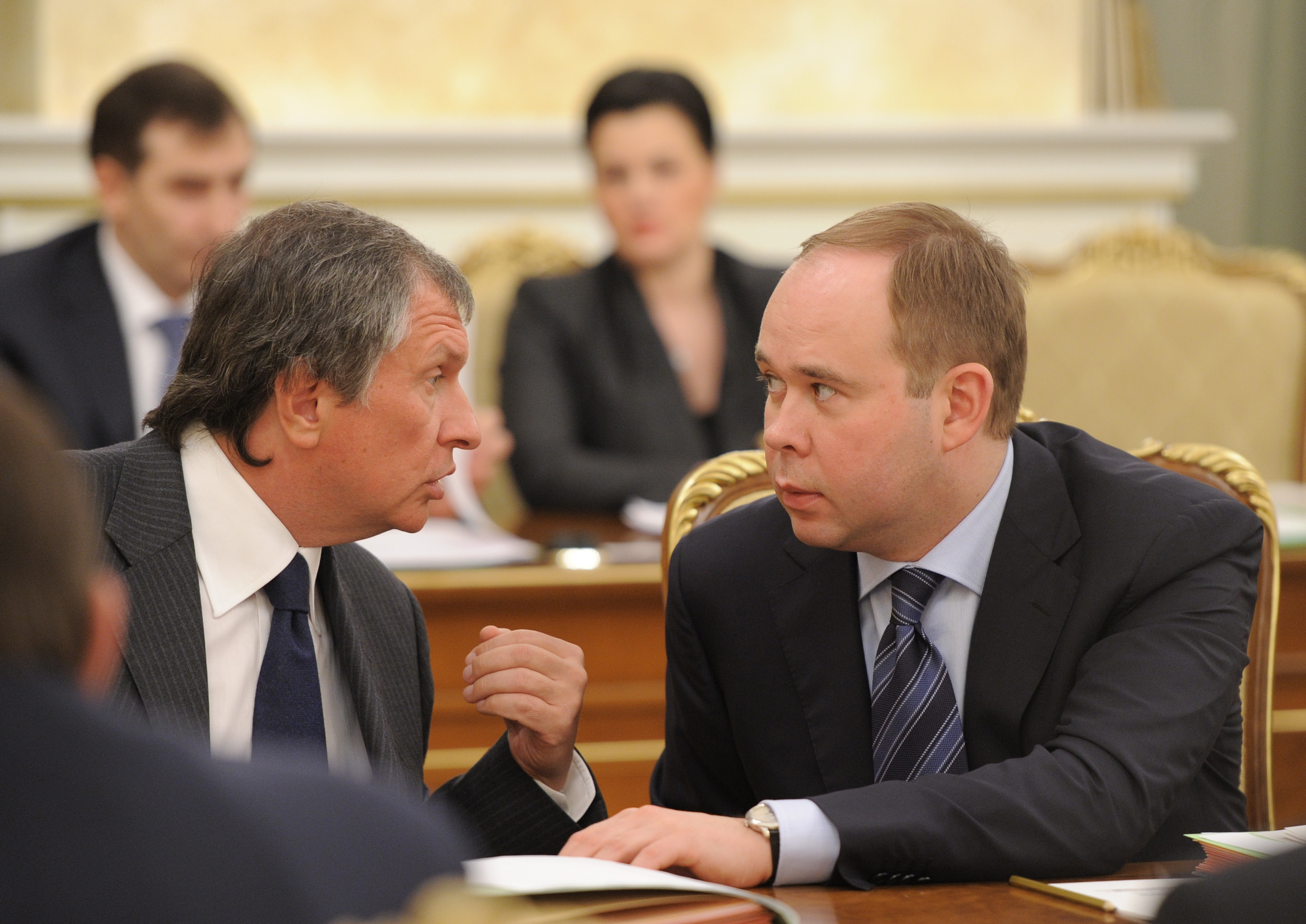 Deputy Prime Minister Igor Sechin and Minister of the Russian Federation and Chief of the Government Staff Anton Vaino at a Government Presidium meeting